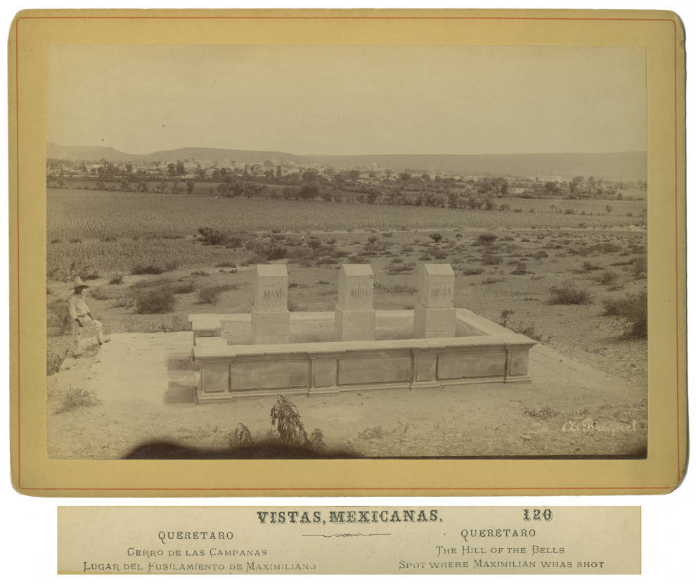 Title: Queretaro, Cerro de las Campanas, Lugar del Fusilamiento Alternative Title: Queretaro, The Hill of the Bells, Spot where Maximilian whas [sic] shot. Creator: Briquet, Abel Date: ca. 1885-1899 Part Of: Views in Mexico Place: Santiago de Queretaro, Queretaro, Mexico Description: The three columns mark the spot where Archduke Ferdinand Maximilian and two of his generals, Miguel Miramon, and Tomas Mejia were executed. Physical Description: 1 photographic print on boudoir card mount: albumen; 13 x 19 cm on 16 x 22 cm mount File: ag1985_0372_120c_queretaro.jpg Rights: Please cite DeGolyer Library, Southern Methodist University when using this file. A high-resolution version of this file may be obtained for a fee. For details see the web page. For other information, . For more information and to view the image in high resolution, see: View the Mexico: Photographs, Manuscripts, and Imprints